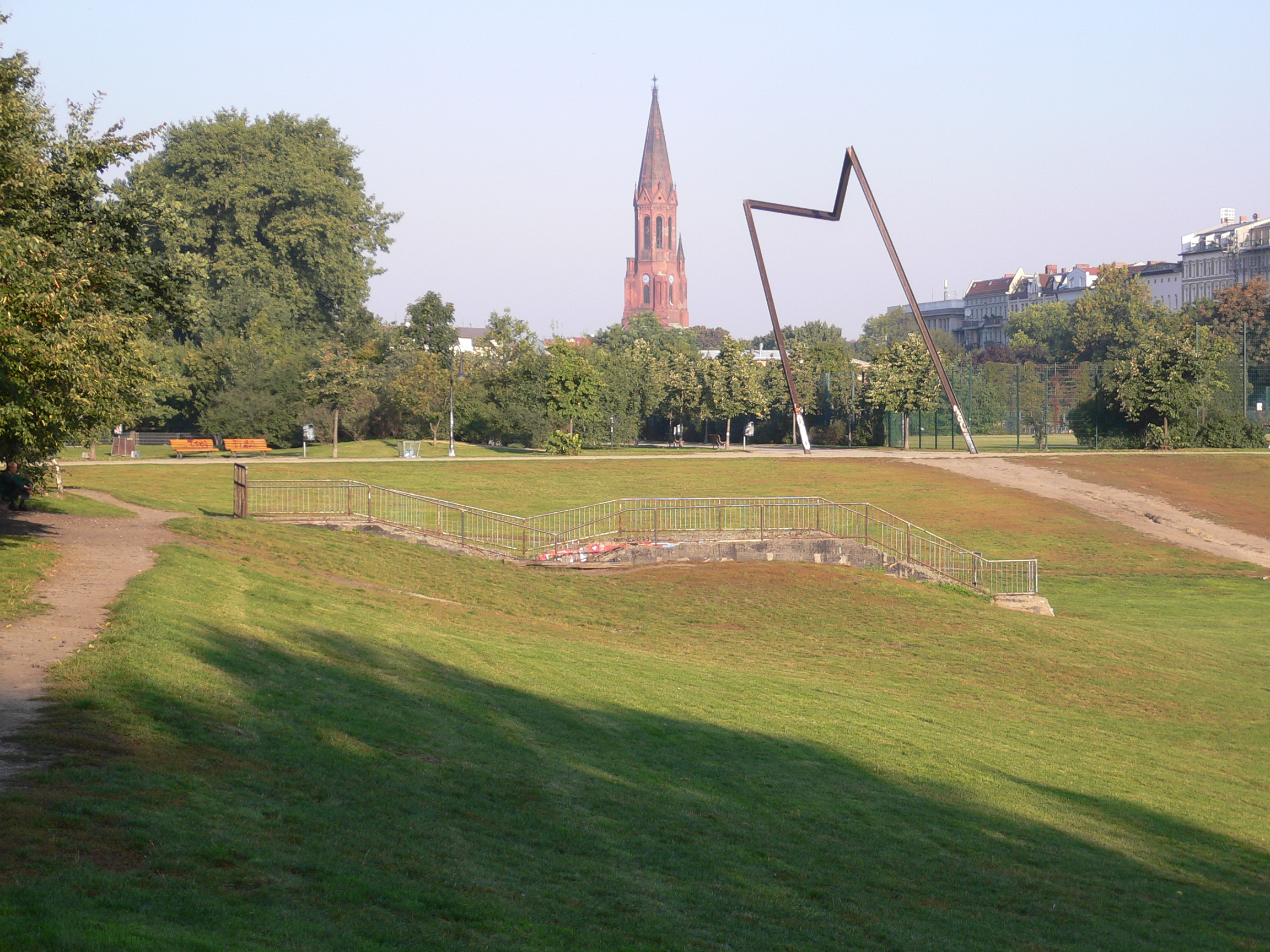 Berlin-Kreuzberg, Germany – on the left the uncovered and partly torn off old pedestrian underpass of former railwaystation Görlitzer Bahnhof, in the middle the church is the Emmauskirche, standing at Lausitzer Platz, on the right the sculpture "schreitender MENSCH" (1991) from Rüdiger Preisler